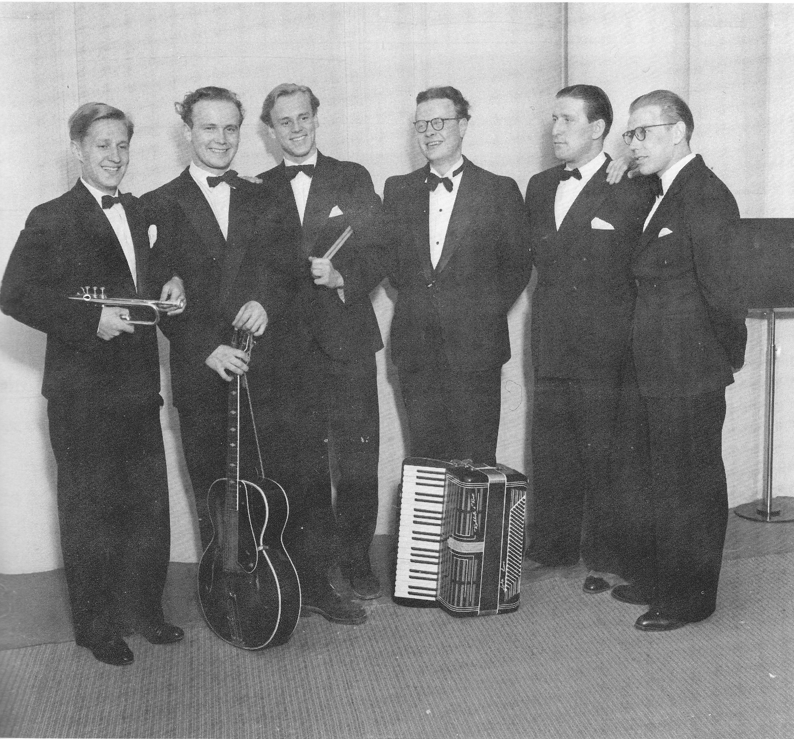 Toivo Kärki and his band